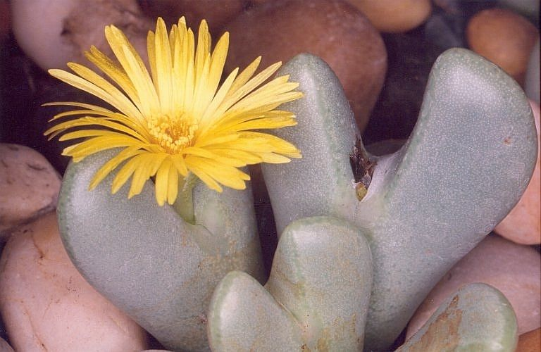 personnal collection